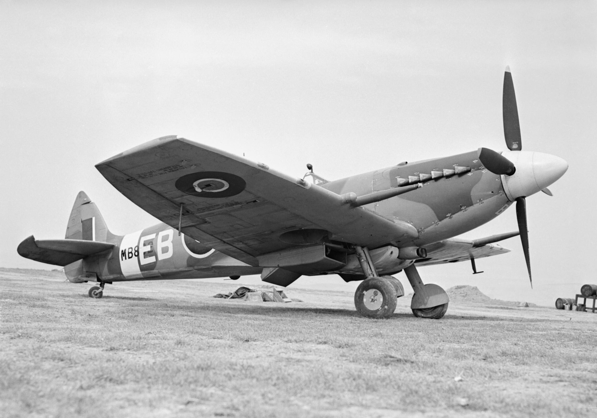 Aircraft of the Royal Air Force, 1939-1945- Supermarine Spitfire. Spitfire F Mark XII, MB882 ‘EB-B’ of No. 41 Squadron RAF, on the ground at Friston, Sussex. Note the slipper fuel tank fitted between the undercarriage.